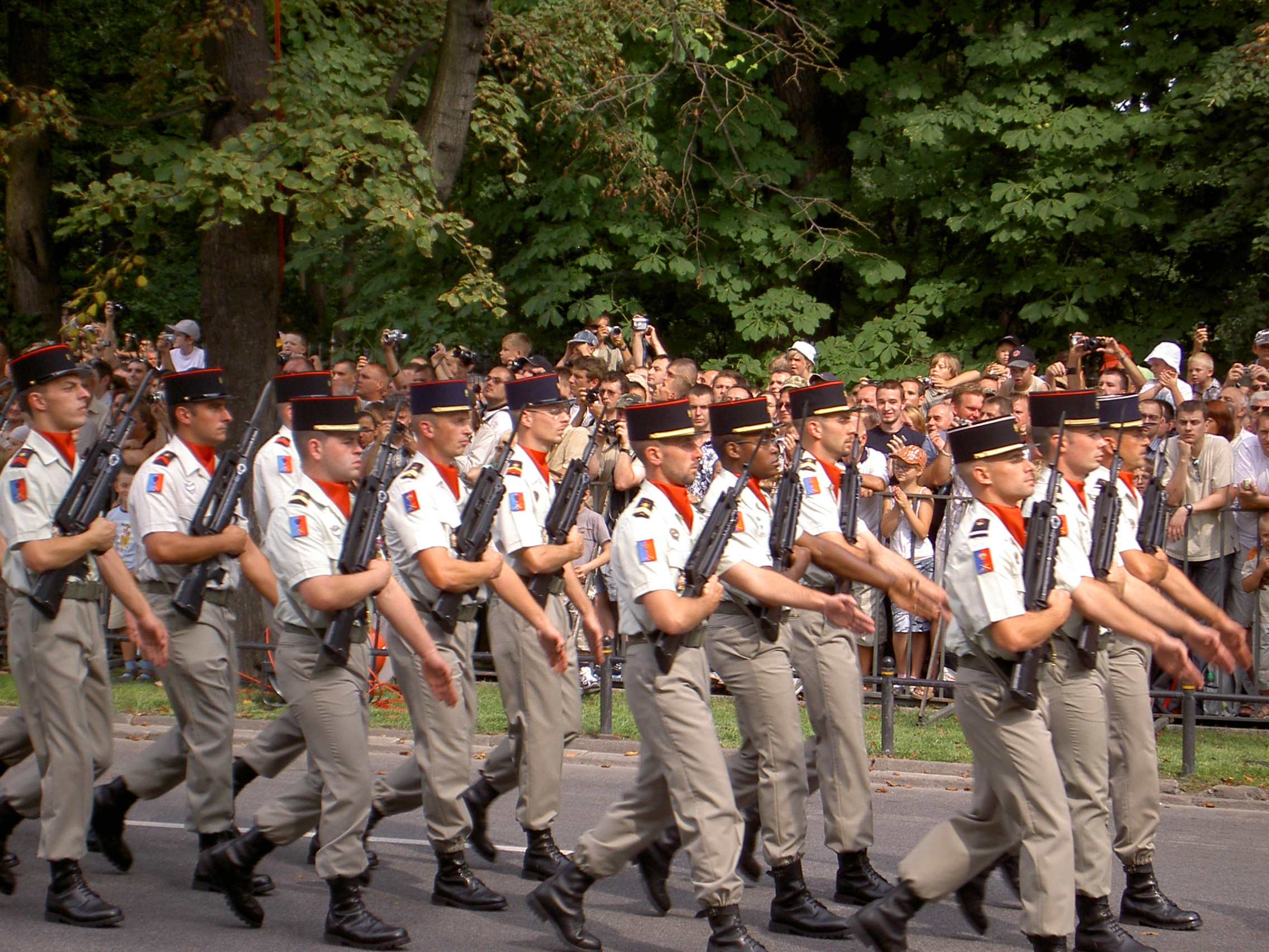 Guard of honor of First Artillery Regiment from Belfort.